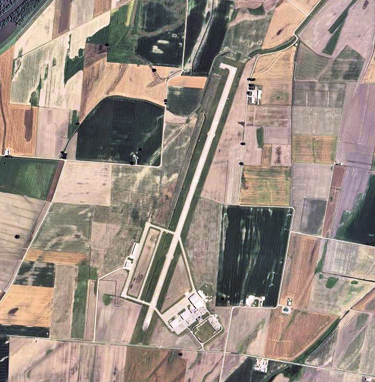 USGS digital orthophoto of Perryville Municipal Airport in Missouri